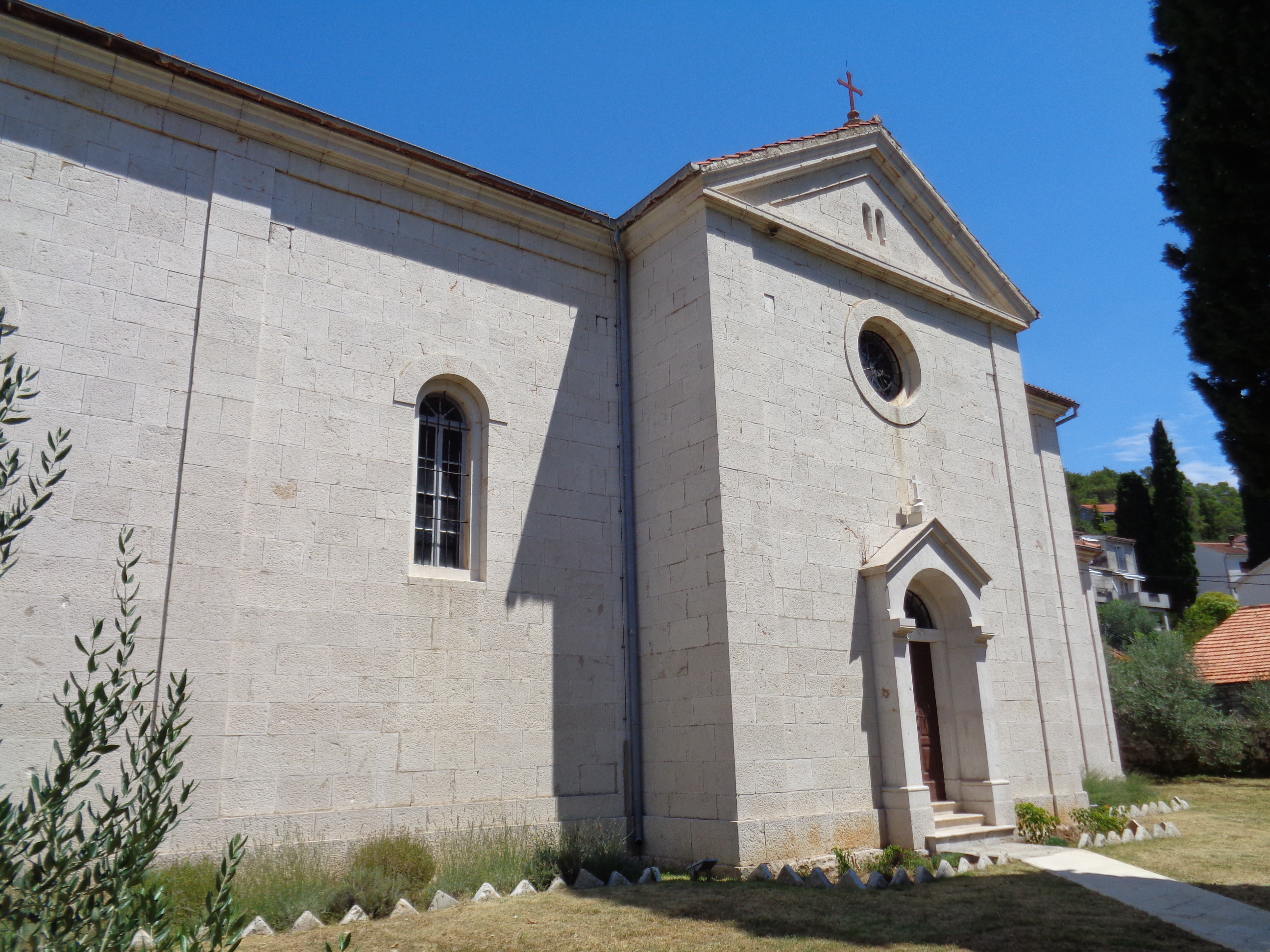 Church of the Birth of the Blessed Virgin Mary in Novigrad Dalmatinski, Zadar County, Croatia - southeast view